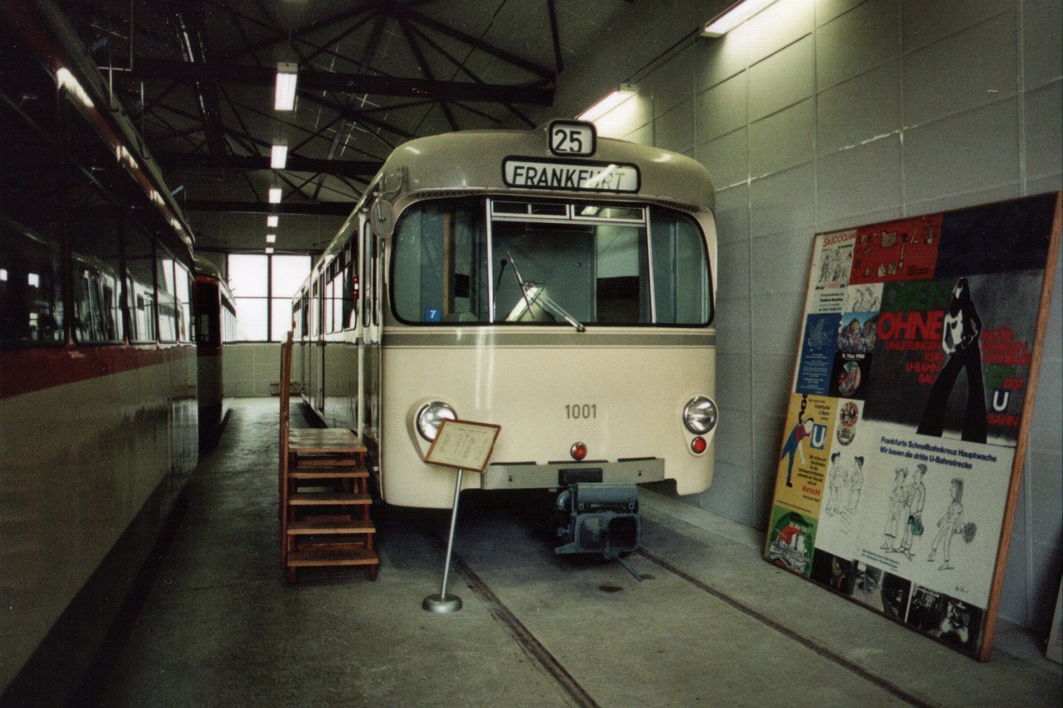 Class U1 light rail vehicle No. 1001 of Frankfurt tramway at Frankfurt traffic museum. Created, scanned and uploaded by Philipp Gross.